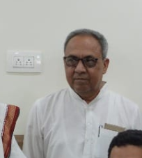 Ch. Tarif Singh at his residence meeting people around his residence.